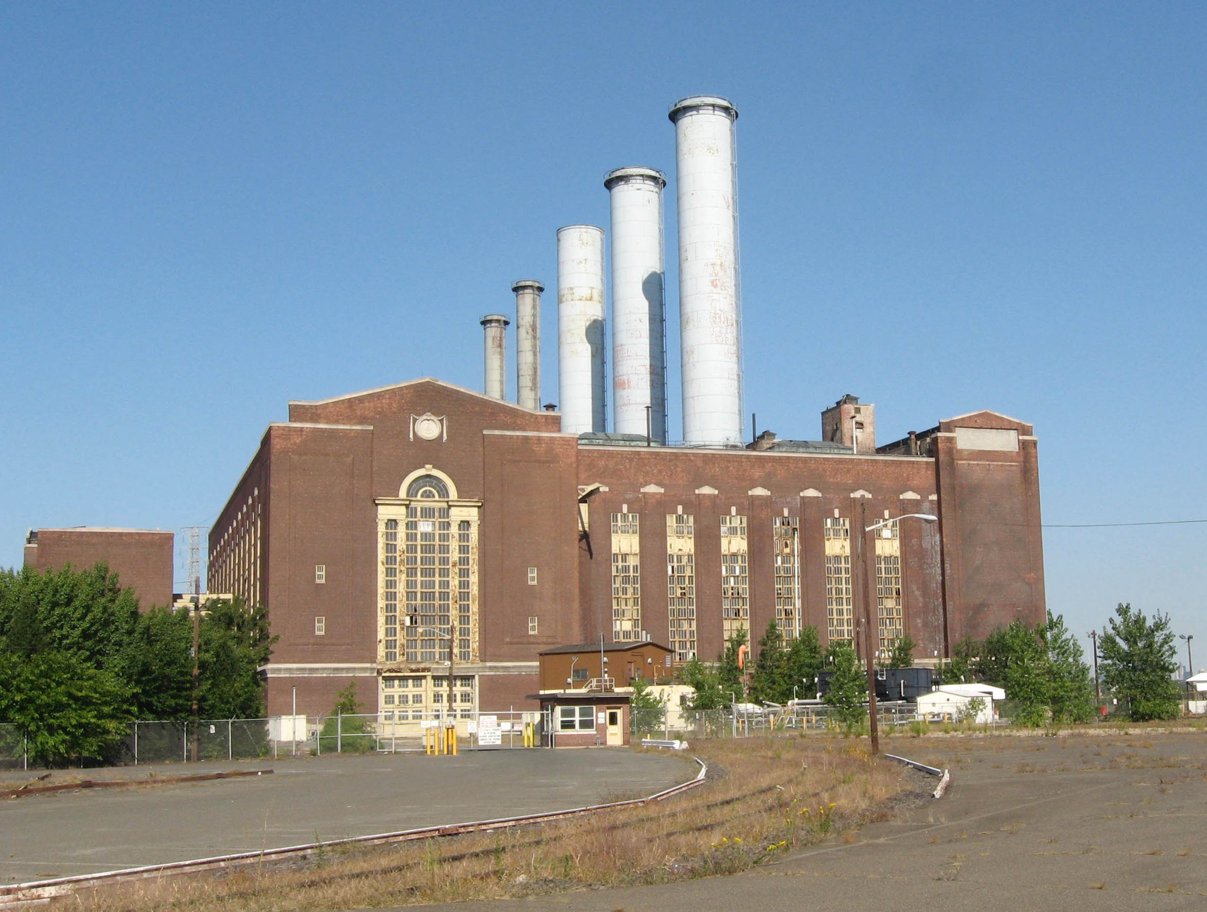 Looking northeast at Kearny Generating Station on a sunny midday